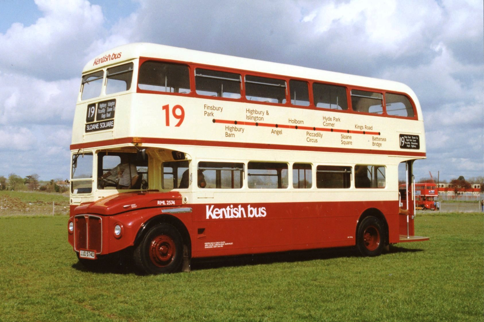 Kentish Bus RML2574 (JJD 574D), a long-wheelbase AEC Routemaster, at the Eastbourne bus rally in July 1993. Kentish Bus were the first operator other than London Buses to use Routemasters in London, and used their own maroon and cream livery.